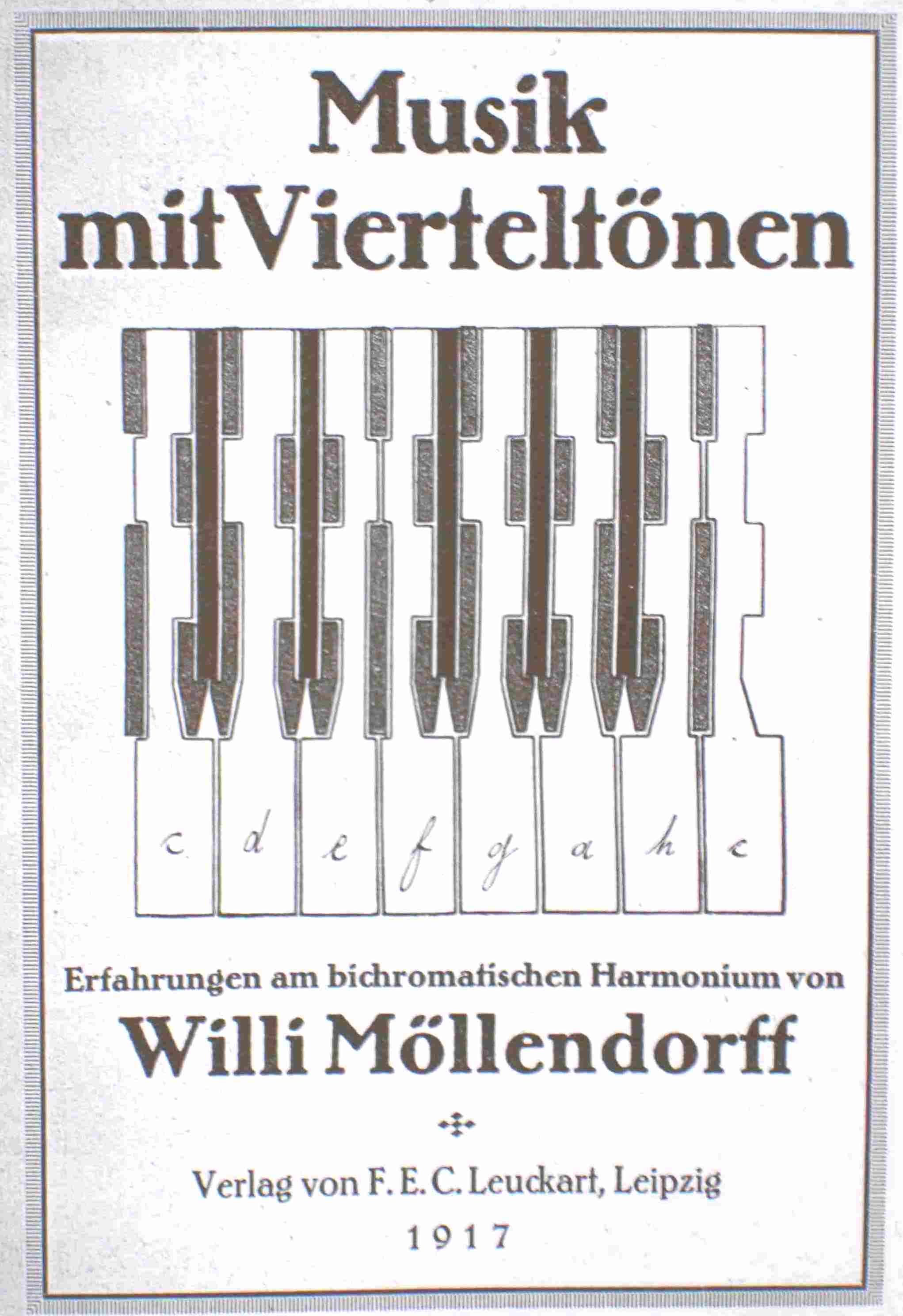 Cover of "Musik mit Vierteltoenen", published in 1917